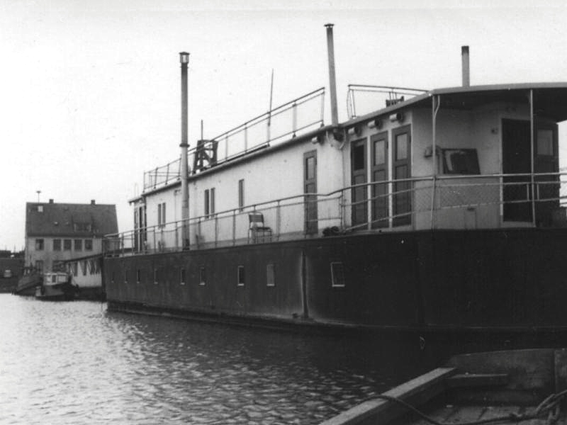 Barge Ali Baba of the DDG Hansa shipping company seen from the harbor basin - Bremen 1961